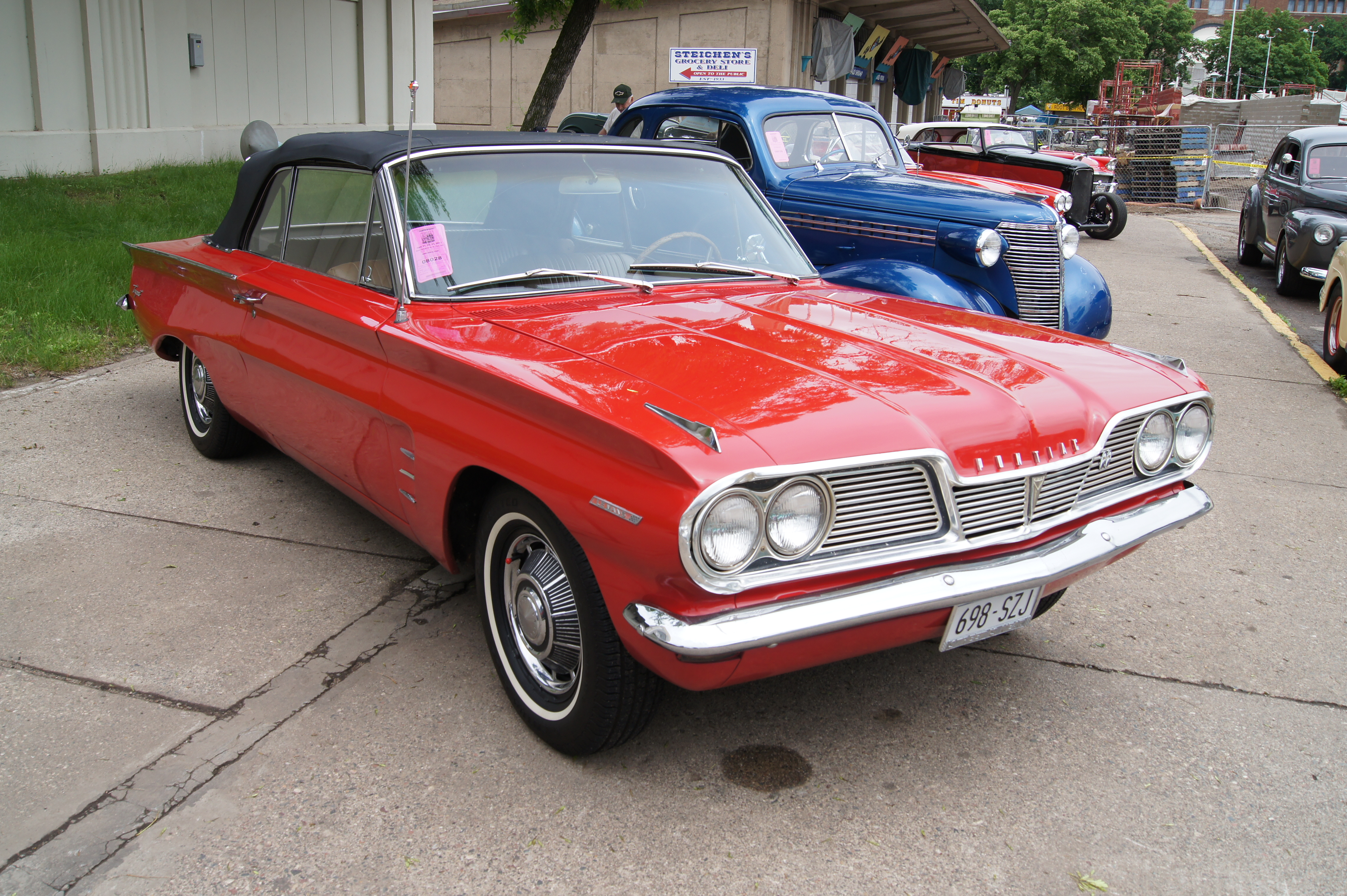 MSRA “BACK TO THE 50′s” 40th ANNIVERSARY June 21-23, 2013 State Fairgrounds St. Paul Minnesota More Car Pictures